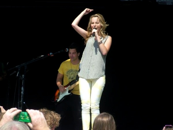 American singer Bridgit Mendler performing in New York, in October 2012.